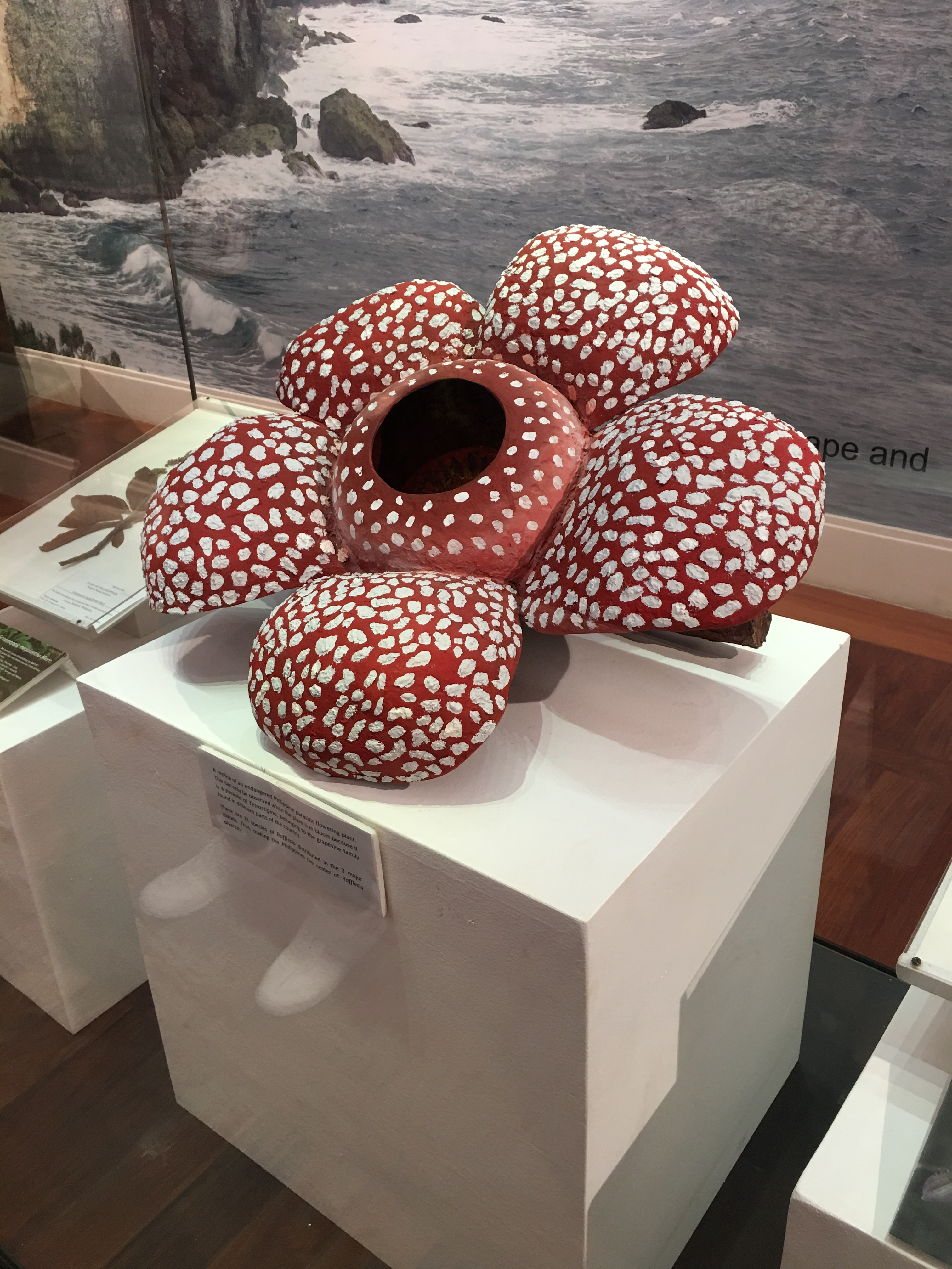 Replica Rafflesia displayed in Philippine National Museum